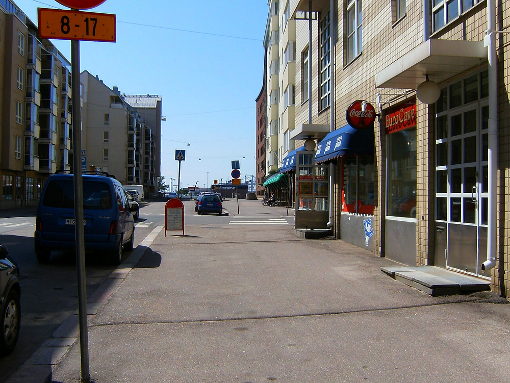 The southwestern section of the street "Lönnrotinkatu" in Helsinki, Finland